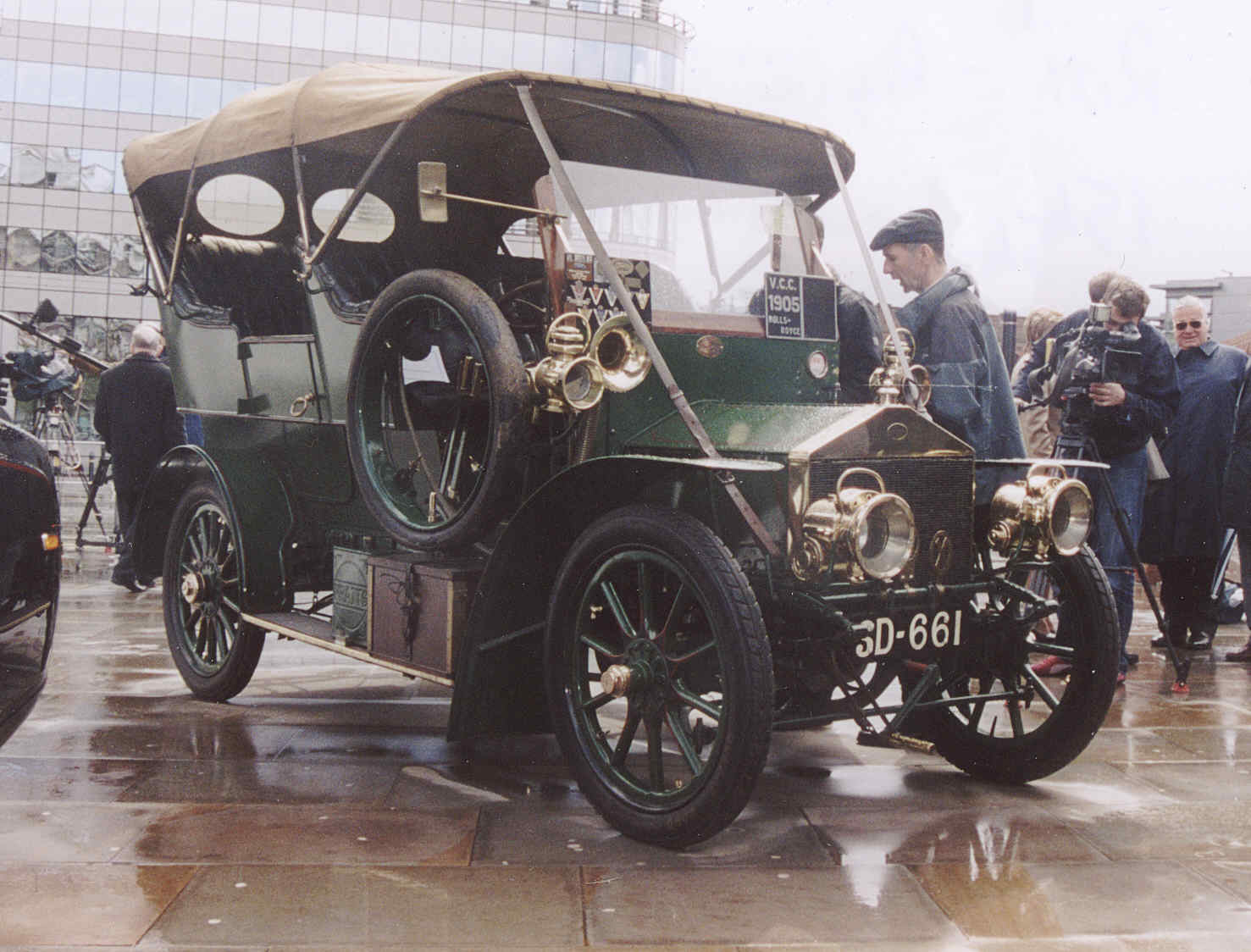 Rolls-Royce 15hp car (1905)